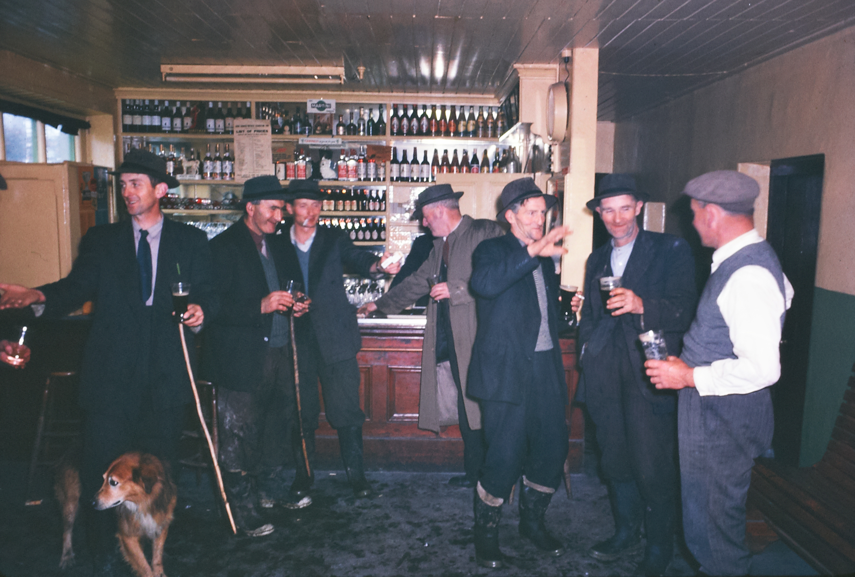 All that we know about this photo is that it was taken in Patrick Sullivan's Bar, circa 1963. Anyone recognise this pub? It certainly looks as if a good time was being had by this group of farmers... guliolopez suggested that being able to see the outside of Richard Sullivan's Bar might "make it easier to divine the location"... Date: Circa 1963 NLI Ref.: TIL609